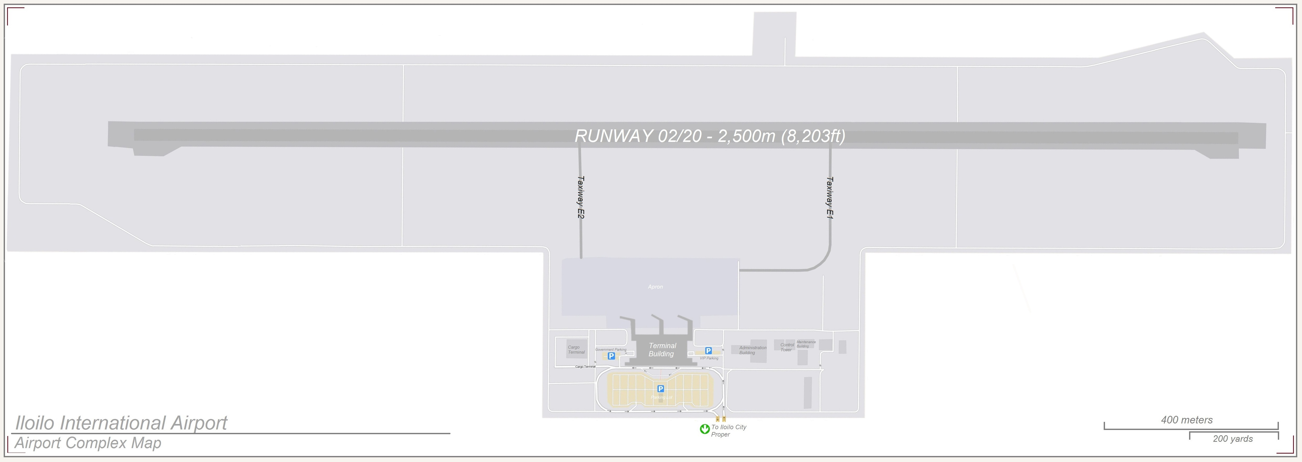 This picture is containing a map of the Iloilo International Airport Complex located in Cabatuan, Iloilo,[1] Philippines.